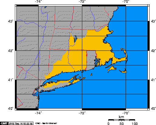 Mercator projection of New England Confederation